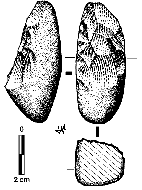 Chopper that proceeds from a superficial site in the Valladolid province (Spain), in the Douro valley.